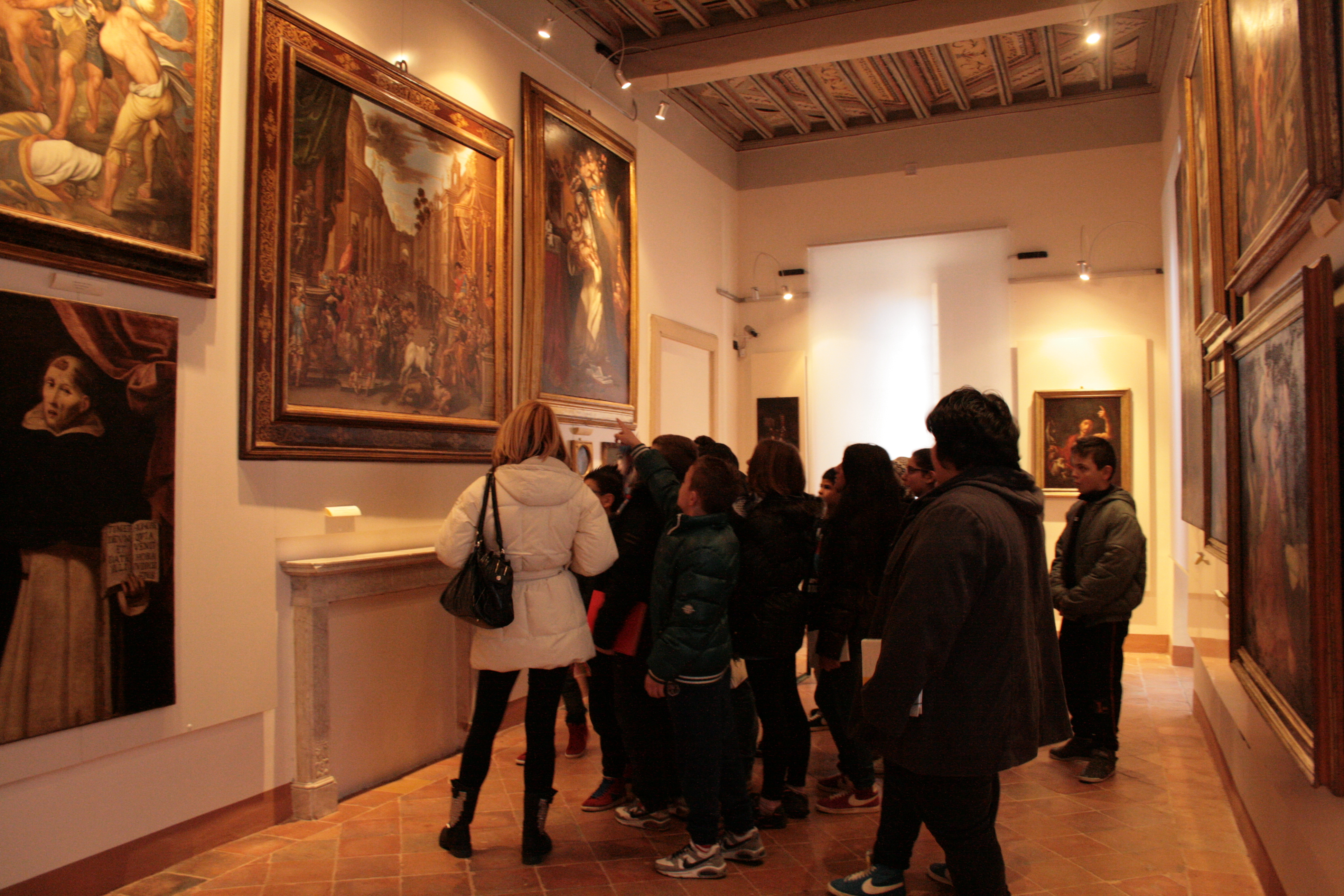 una sala del Museo civico di Bevagna (Pg) in Corso Matteotti